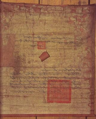 Tibetan legal Document of the 5th Dalai Lama